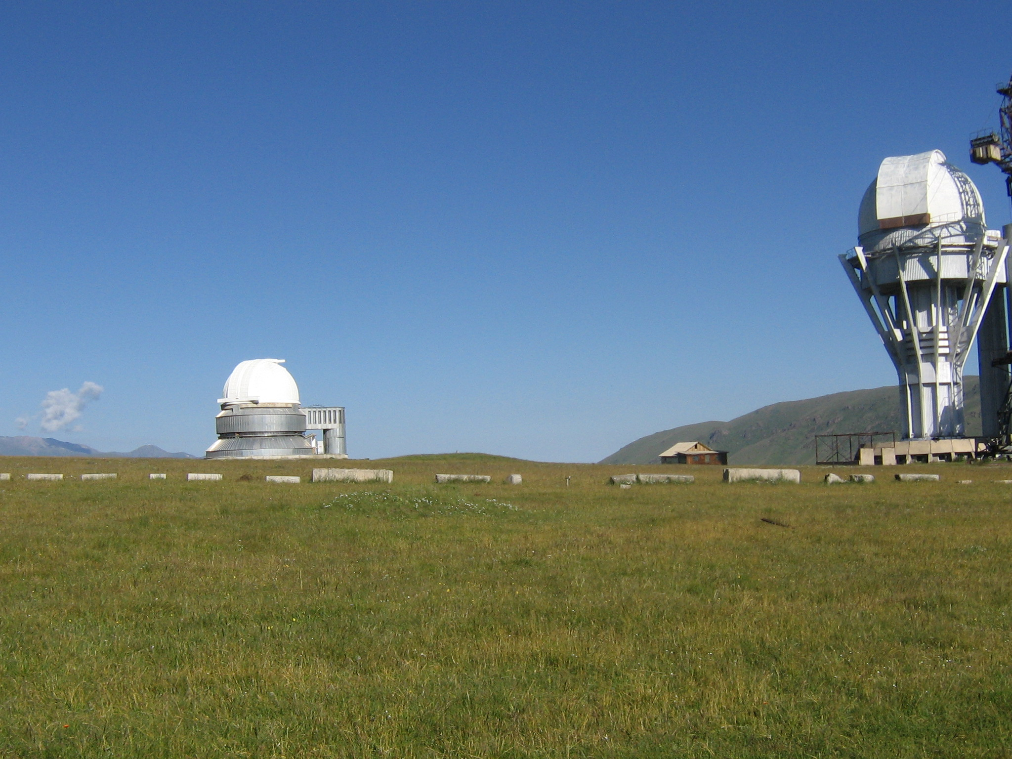 Assy-Turgen Observatory